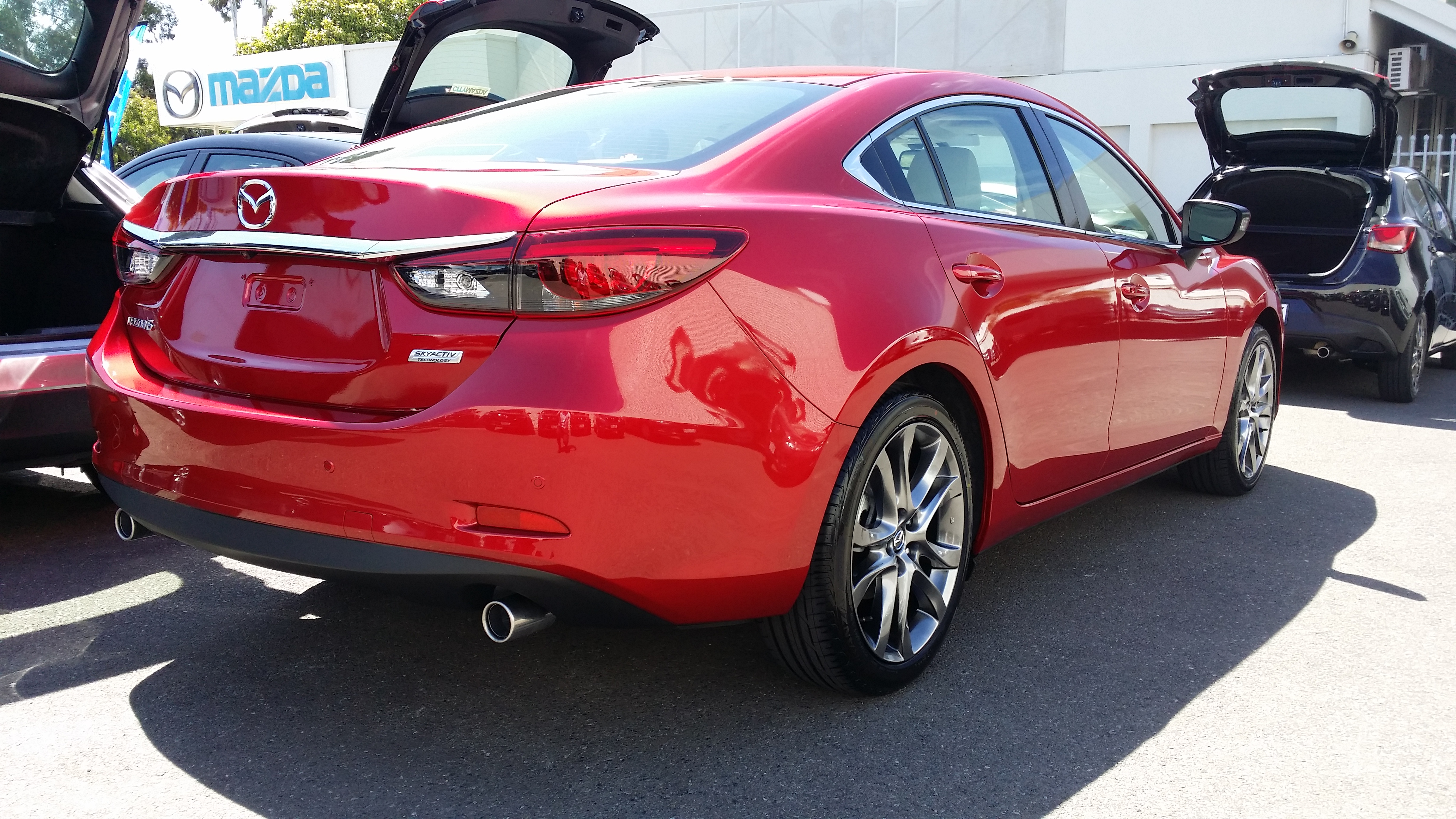 We received our first new facelifted Mazda 6 today, a GT in Soul Red. I really like what they've done with the upgrades, especially the polished alloy wheels, simpler grill and the new centre console upgrade. They've also done away with the handbrake lever and there is now an electric handbrake button, like what's also found in the new facelifted CX-5, which was also released in Australia last week.